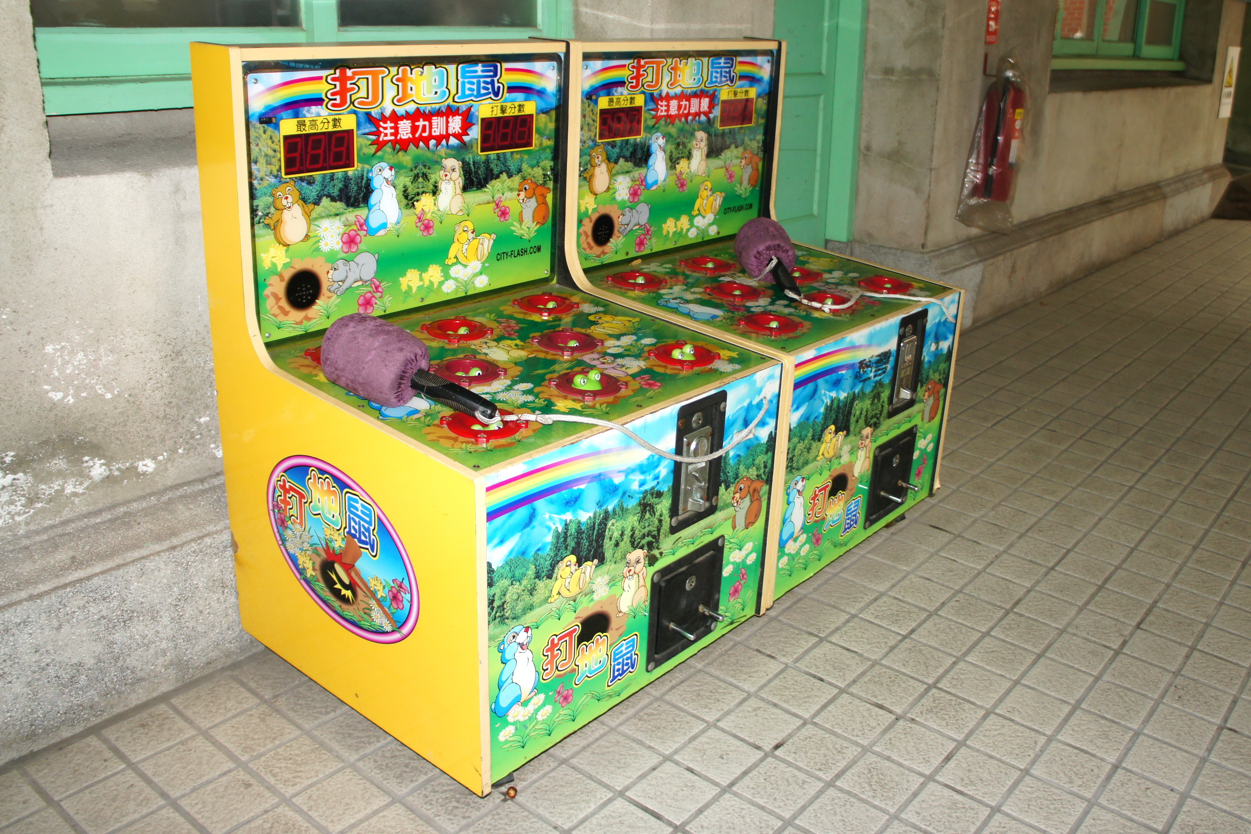 Two Whac-A-Mole machines at the Yunlin Hand Puppet Museumn.